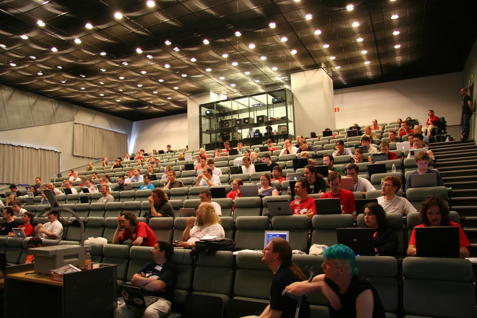 Main lecture room on the first day of DebConf5.